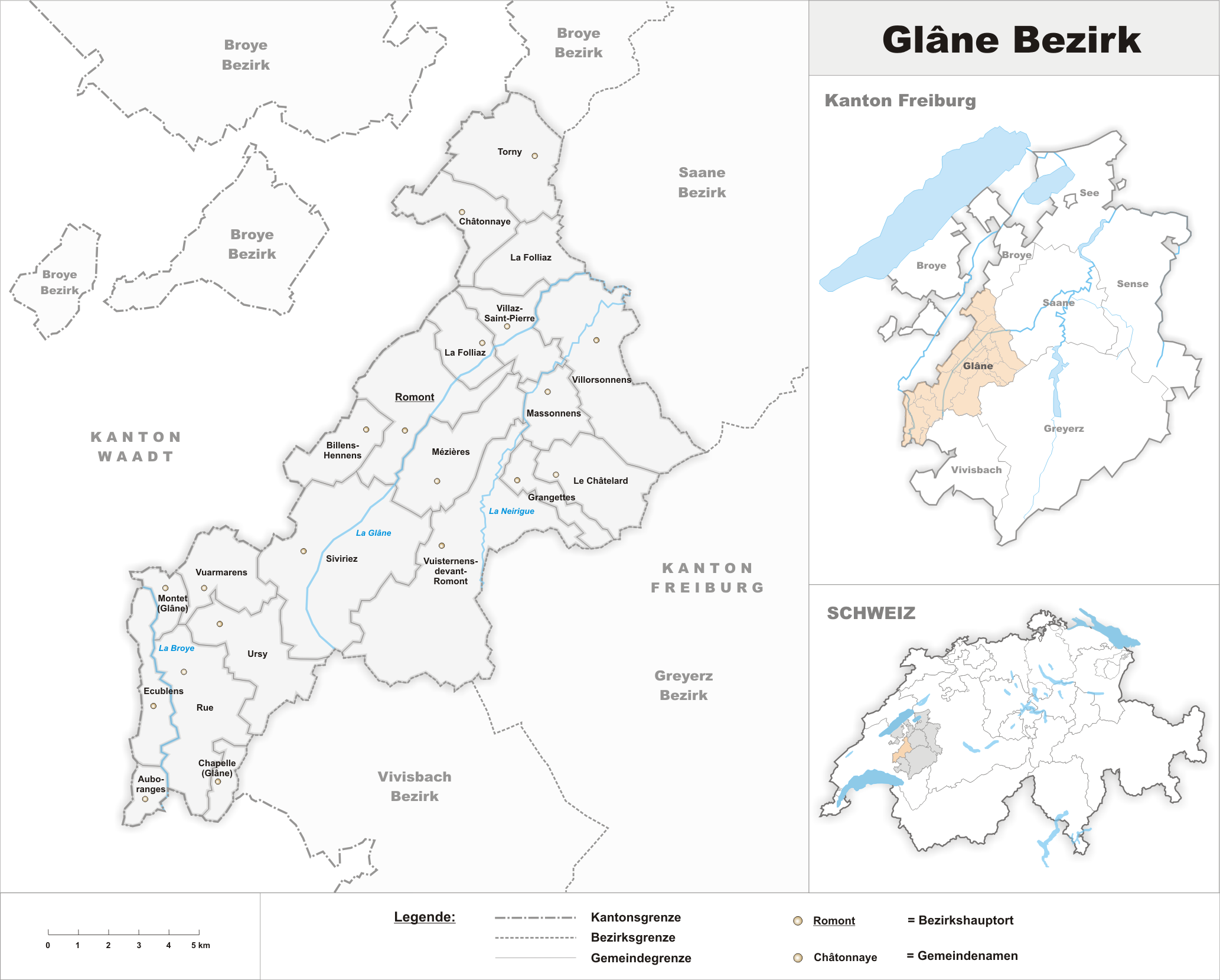 Municipalities in the district of Glâne